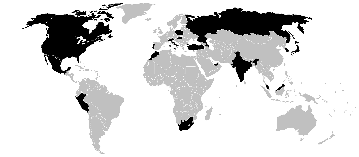 Countries that are bidding for 2020 Summer Olympic Games.